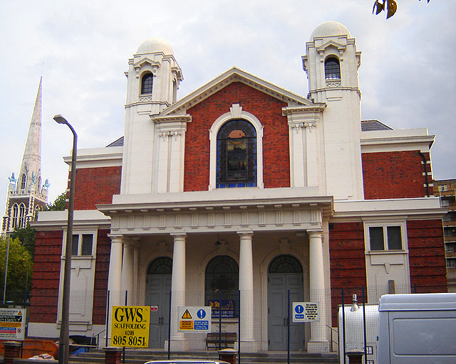 New Synagogue, Eerton Road, Upper Clapton, Hackney, London N16, seen from the north. In the background on the left are the west tower and spire of the Georgian Orthodox Cathedral of the Nativity of Our Lord in Rookwood Road, which was built in 1892–95 as the Agapemonite church of the Good Shepherd.